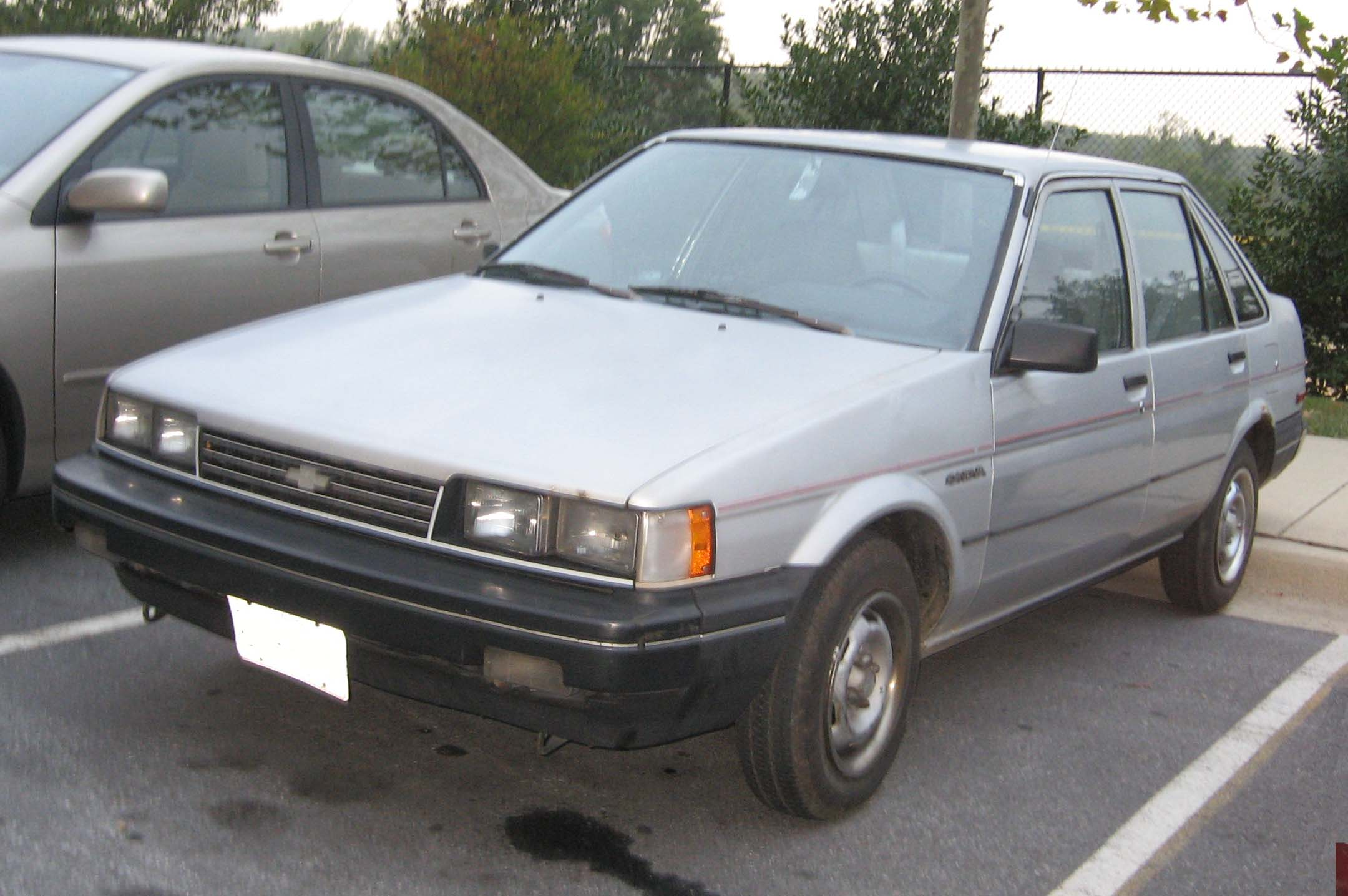 1985-1988 Chevrolet Nova photographed in College Park, Maryland, USA.